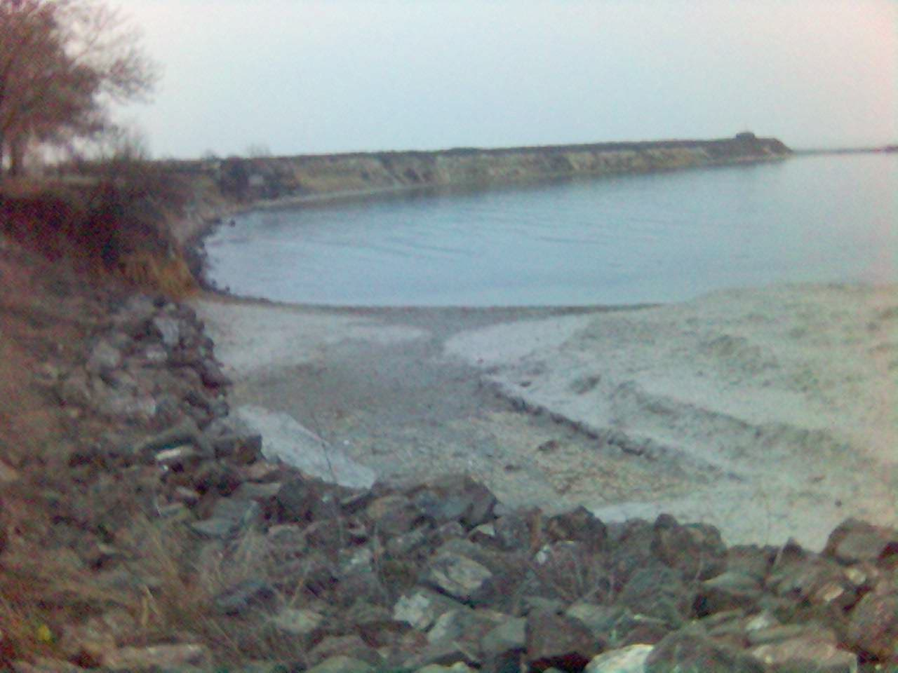 The beach of Aheloy, Bulgaria